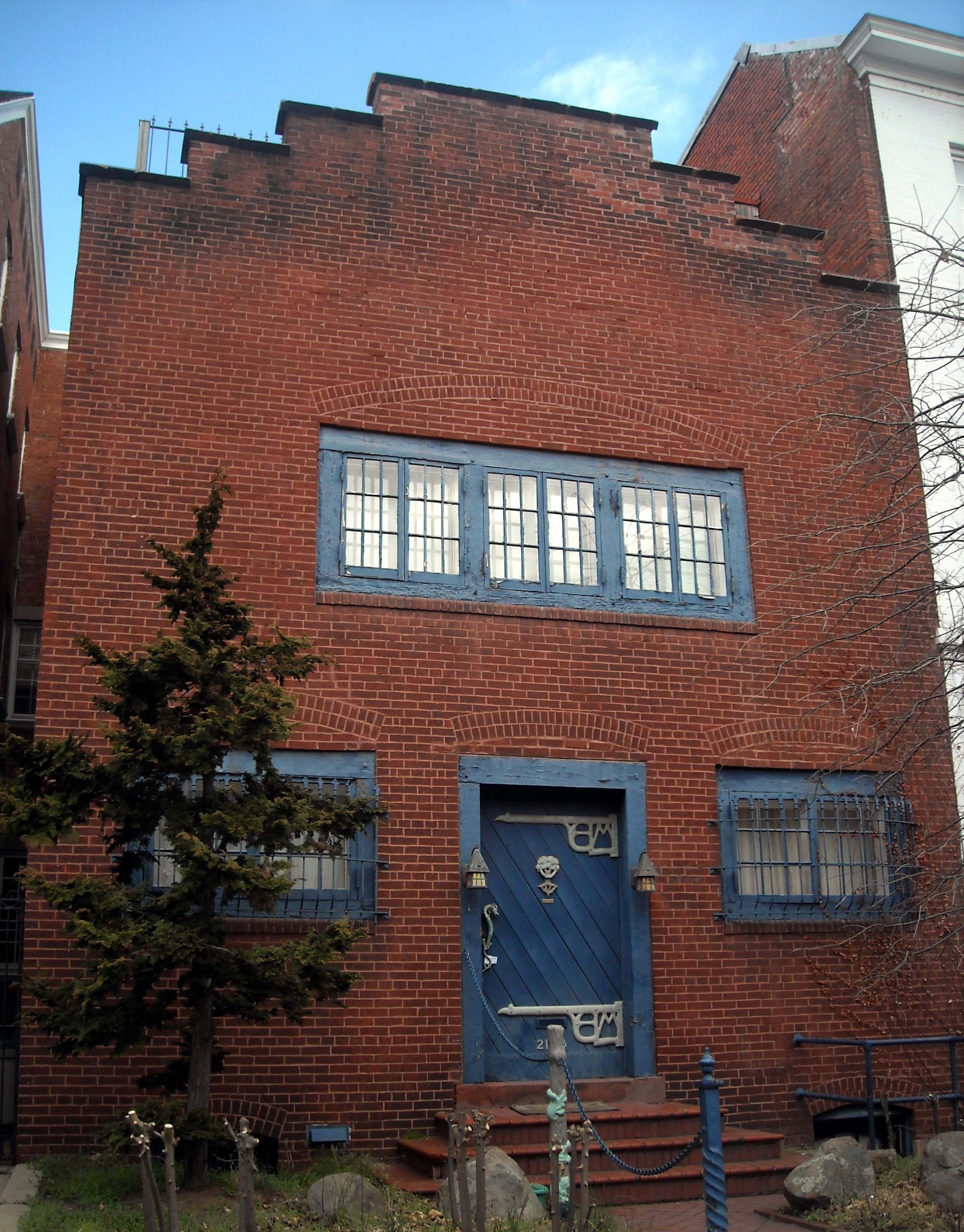 The Edward Lind Morse Studio located at 2133 R Street, NW in the Sheridan-Kalorama neighborhood of Washington, D.C. Designed by architects Hornblower & Marshall in 1902, the Arts and Crafts style house was originally an artist's studio used by Edward Lind Morse, the youngest son of inventor and artist Samuel F. B. Morse. The studio was converted into a residence in 1910, and currently serves as the Delphi Film Foundation headquarters. The building is a contributing property to the Sheridan-Kalorama Historic District. Its 2009 property value is $1,311,810. Previous owners of the building include Thomas Raymond Ball and Franklin D. Roosevelt's oldest son, James Roosevelt. Franklin and Eleanor lived next door (2131 R Street, NW) from 1918 to 1920.